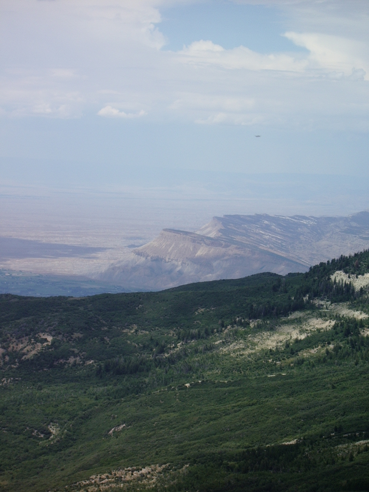 Looking approximately N-NW from the Land`s End Observatory located on the western edge of the Grand Mesa of western Colorado, USA